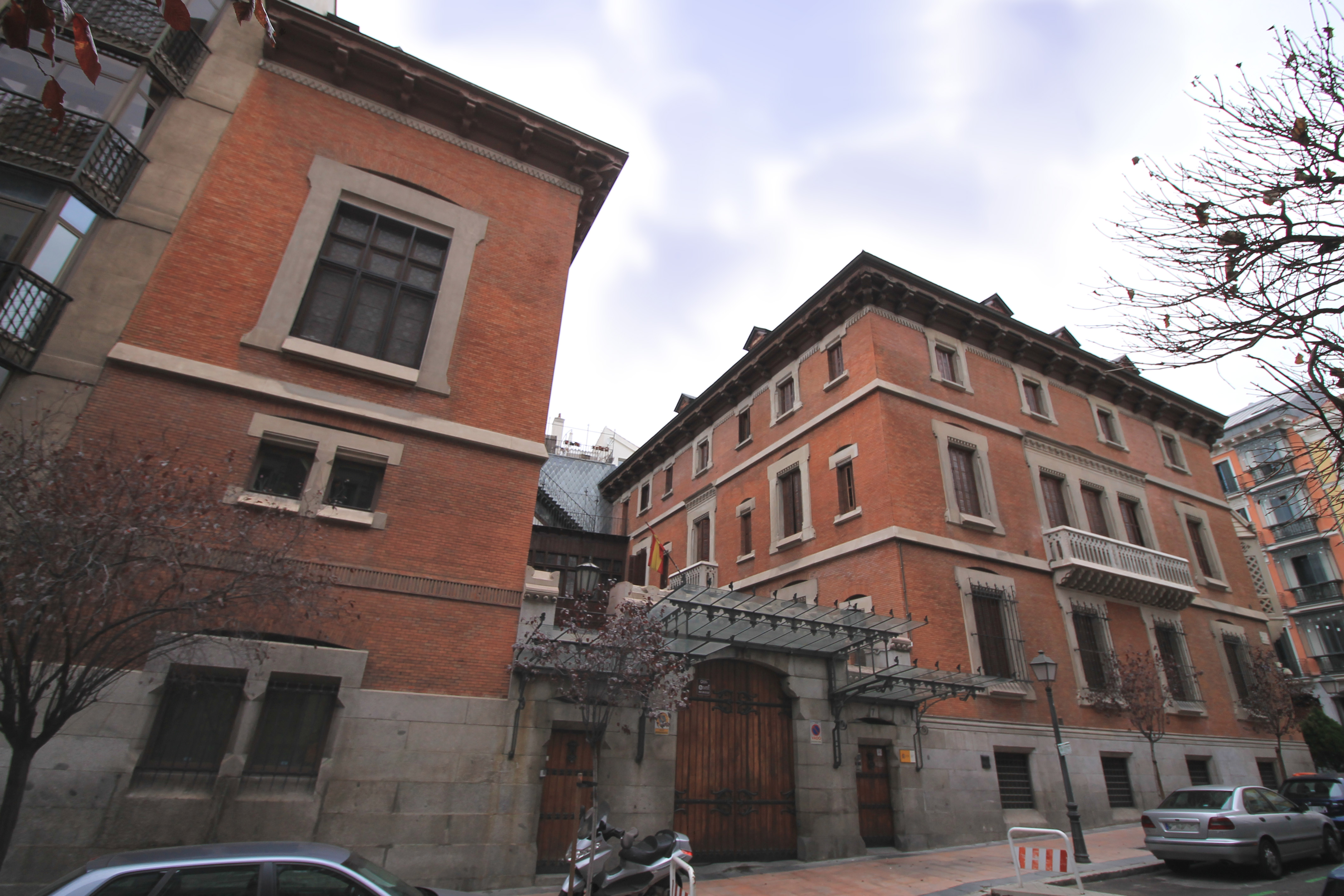 Façade of Palacio de Zabálburu in Madrid (Spain).